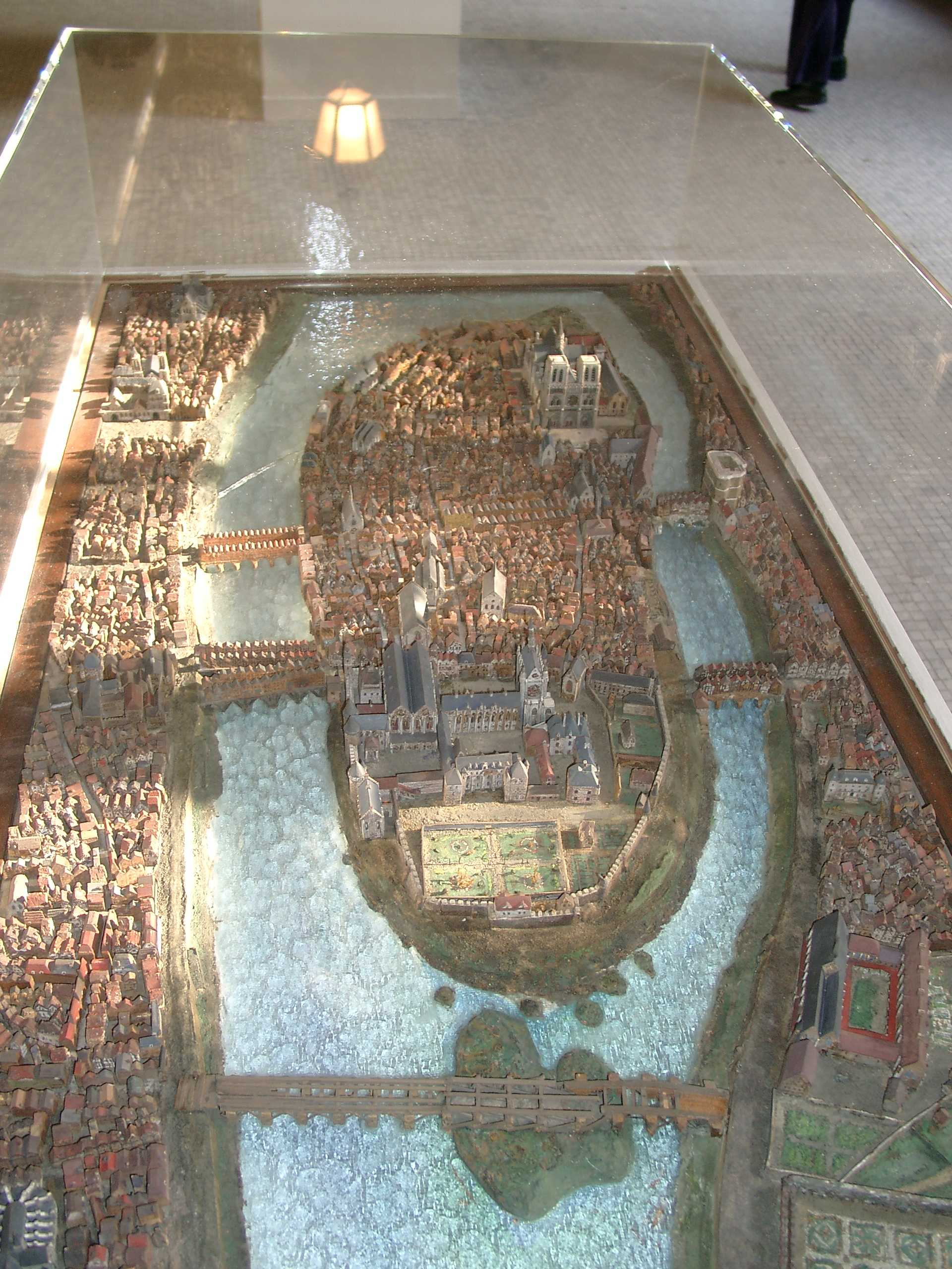 Model of medieval Paris (16.century), view from west; Musée Carnavalet (taking photos without flash is allowed)